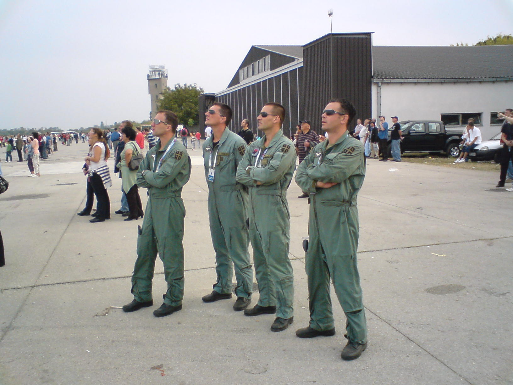 Serbian pilots members of 252 LBAE "Kurjaci sa Usca"